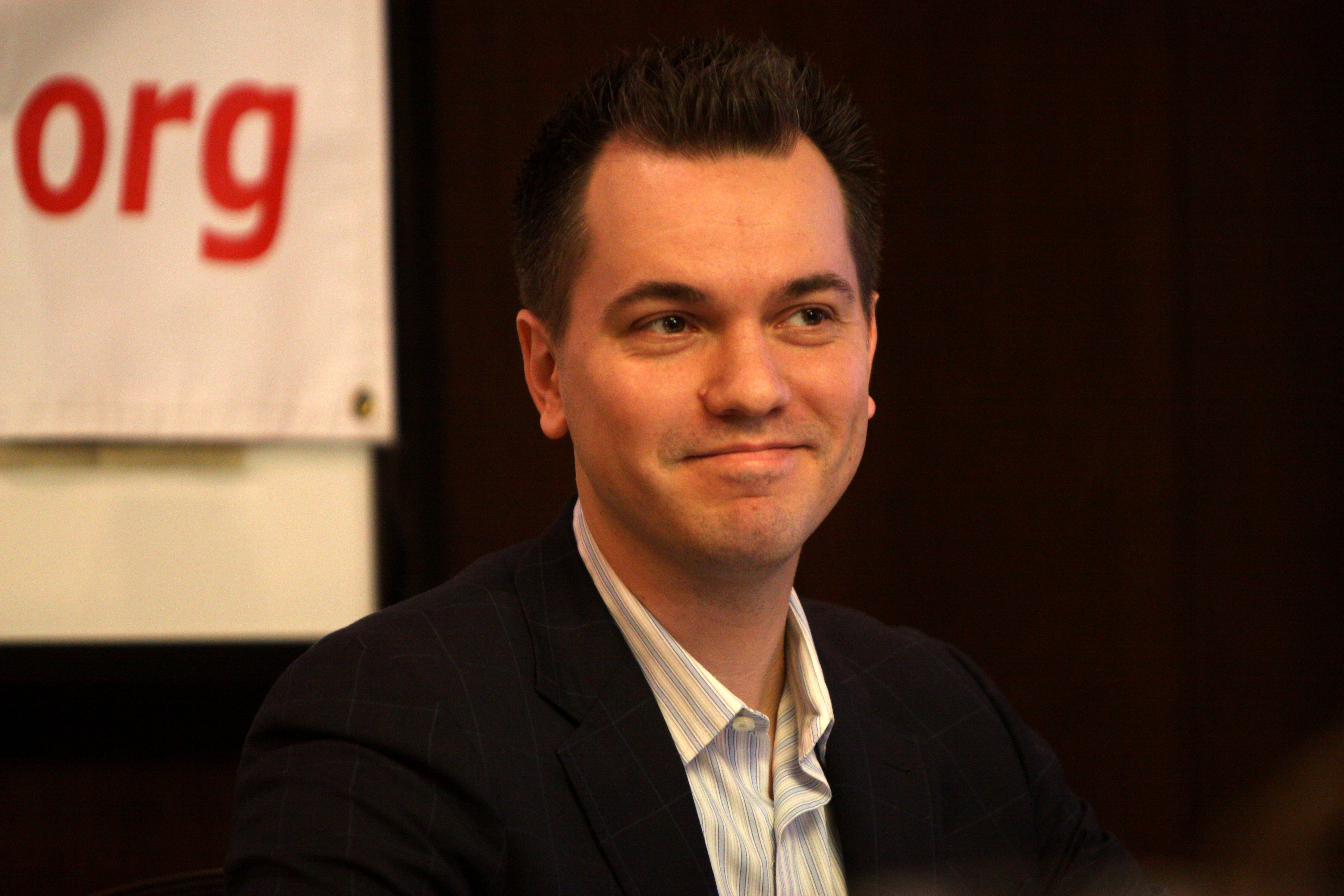 Austin Petersen speaking at the 2013 FreedomWorks Youth Summit in Washington, D.C.